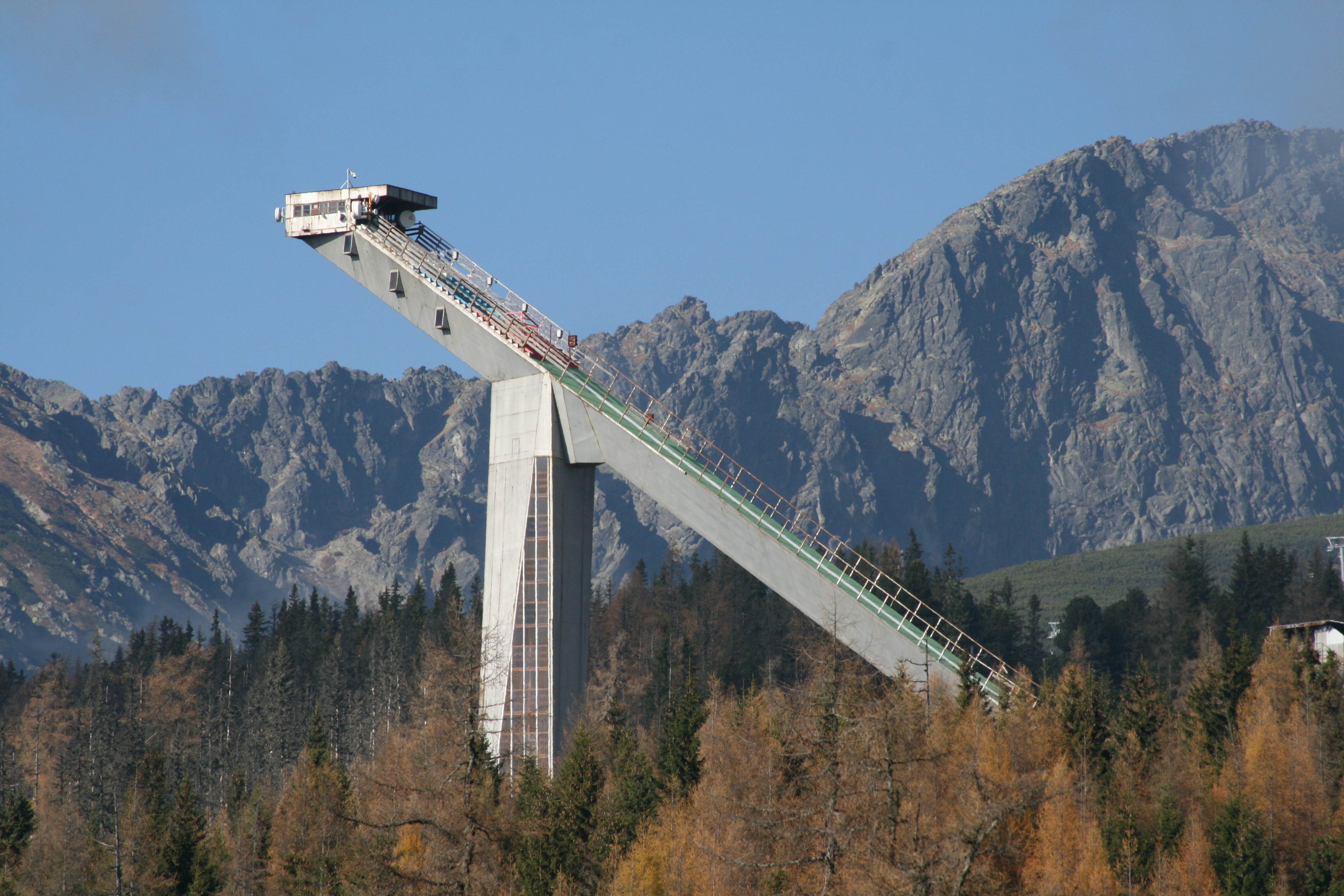 Ski jumping hill, Štrbské Pleso, High Tatras, Slovakia